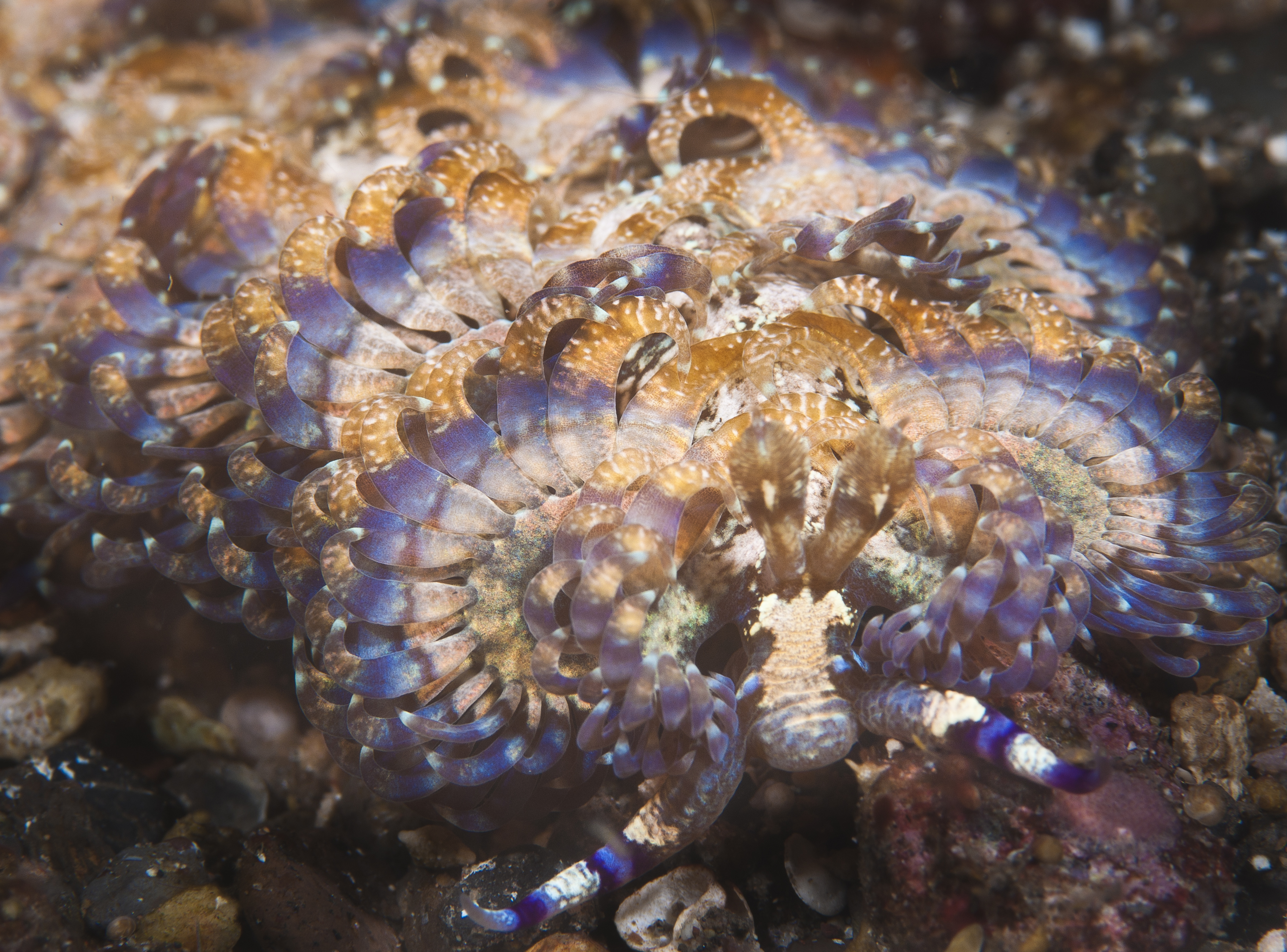 Closeup of a Pteraeolidia ianthina, the Blue Dragon nudibranch, taken near Alor Island, Indonesia.